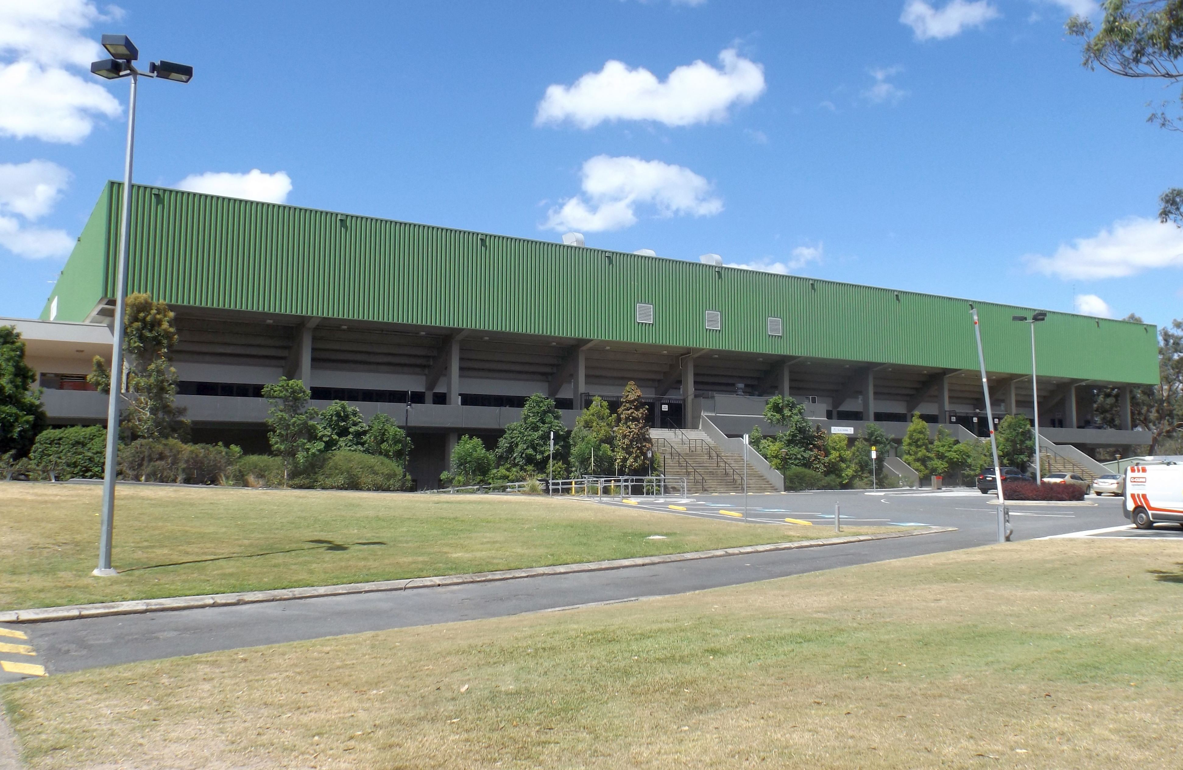 Photo of the Brisbane Aquatic Centre at the Sleeman Centre in Chandler, Brisbane, Queensland, Australia.